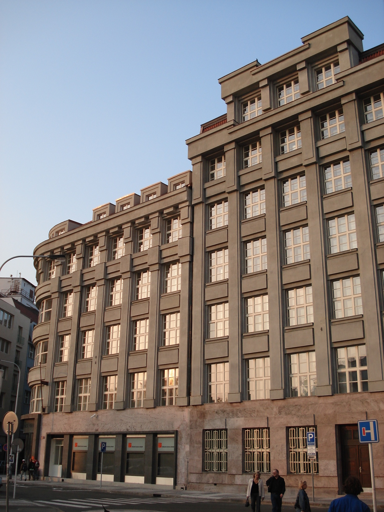 Prague, Palace Skoda, 1926, architect Pavel Janak // now hosting the administration of Prague Town Hall